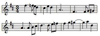 First Theme of Mjaskowski's fifth Symphony